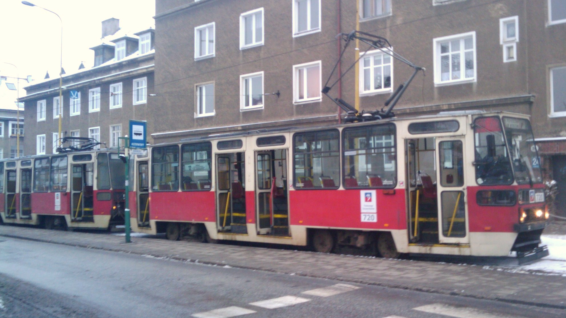 A double 105N tram in Szczecin (Poland).